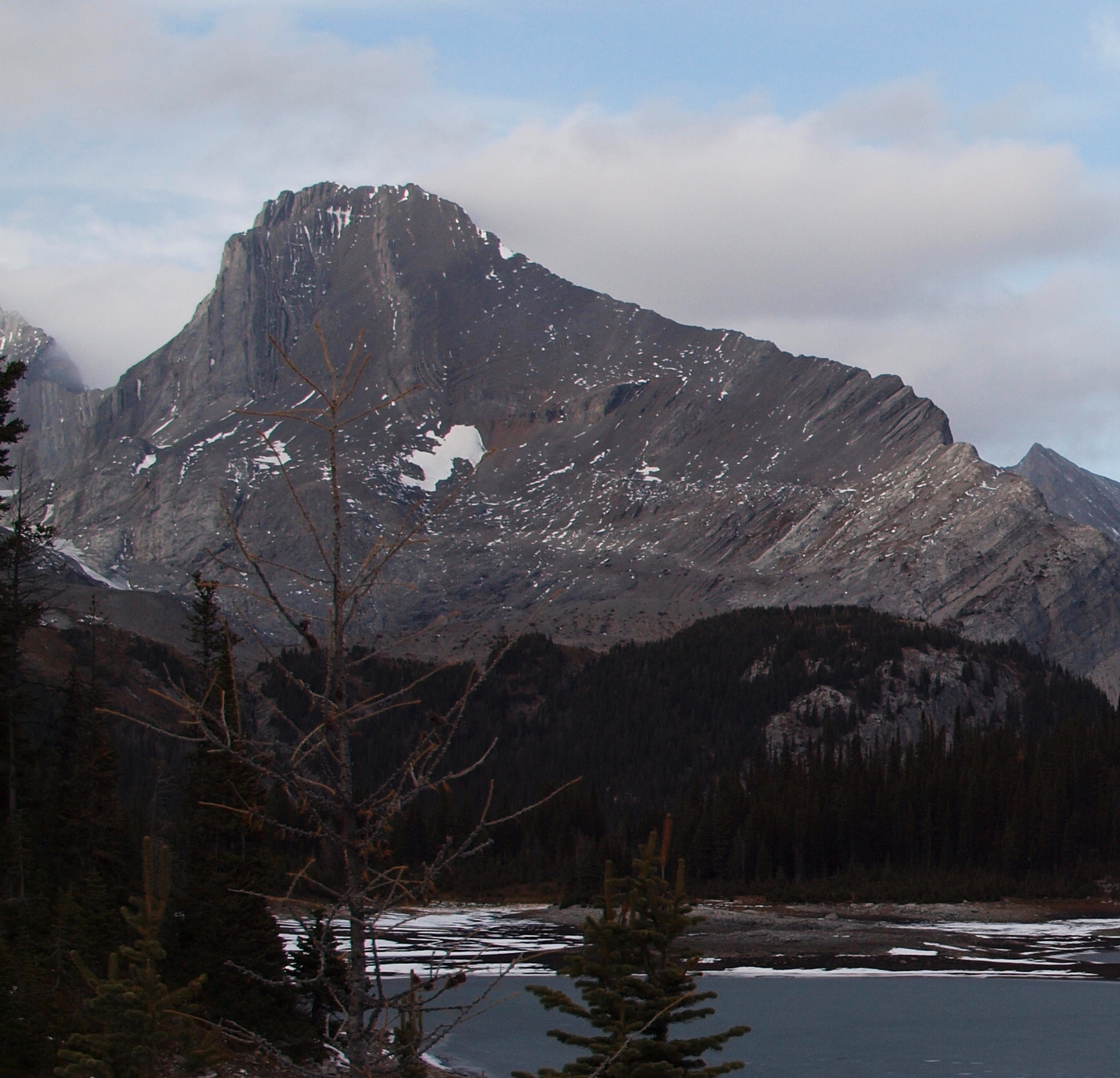 Mount Jellicoe seen from Lawson Lake in Turbine Canyon, Kananaskis Country, Alberta Canada